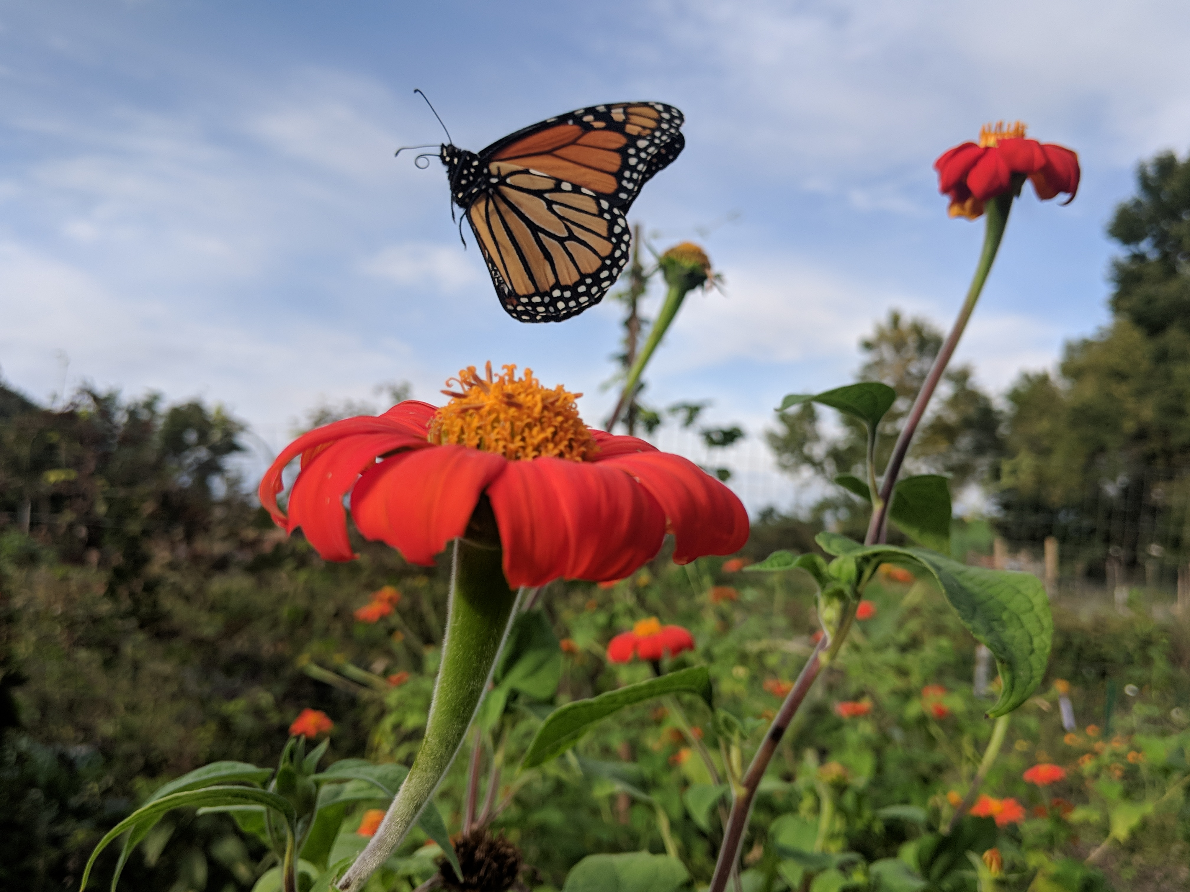 Monarch butterfly flying away from a Mexican sunflower